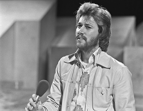 Barry Gibb (Bee Gees) in AVRO's TopPop (Dutch television show) in 1973